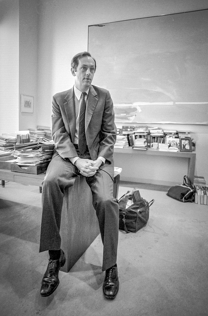 Sen. Bill Bradley (D-NJ) in his office